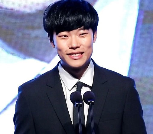 Ryu Jun-yeol